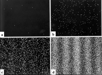 Results of a double-slit-experiment performed by Dr. Tonomura showing the build-up of an interference pattern of single electrons. Numbers of electrons are: 8 (a), 270 (b), 2000 (c), 60000 (d).